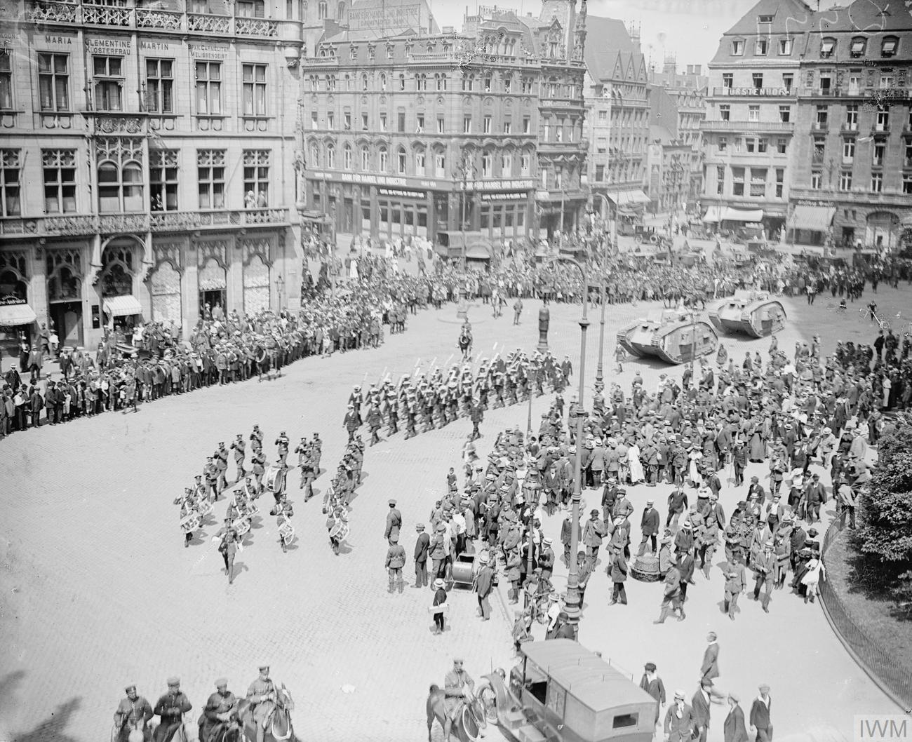 The British Army of the Rhine, 1919-1929 Two tanks passing through Cologne for inspection by the VI Corps Commander, General Aylmer Haldane, June 1919. The Drum Major is Sergeant Henry George Levett of the 9th Batttalion, East Surrey Regiment.